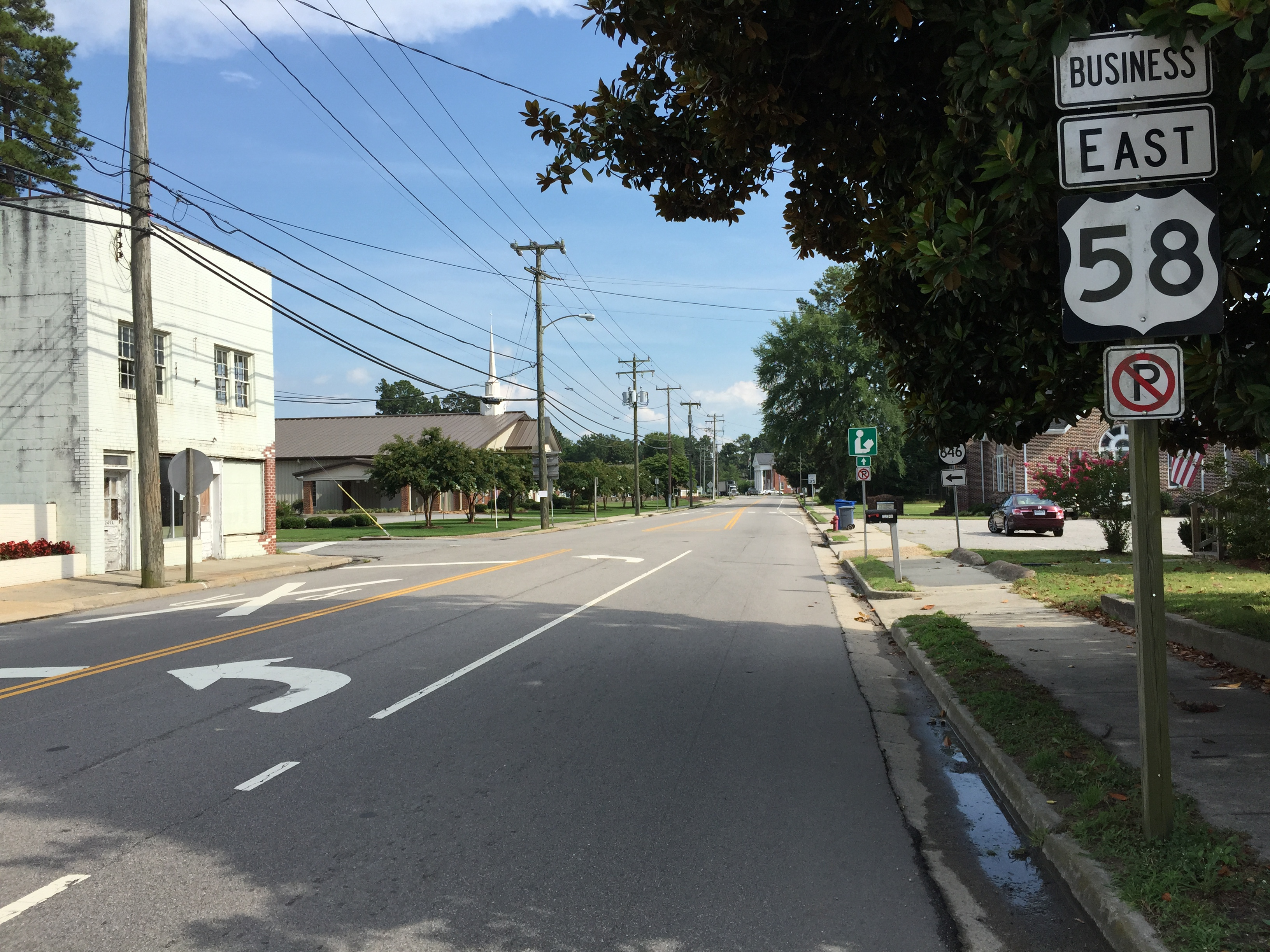 View east along U.S. Route 58 Business (Main Street) at Bride Street in Courtland, Southampton County, Virginia